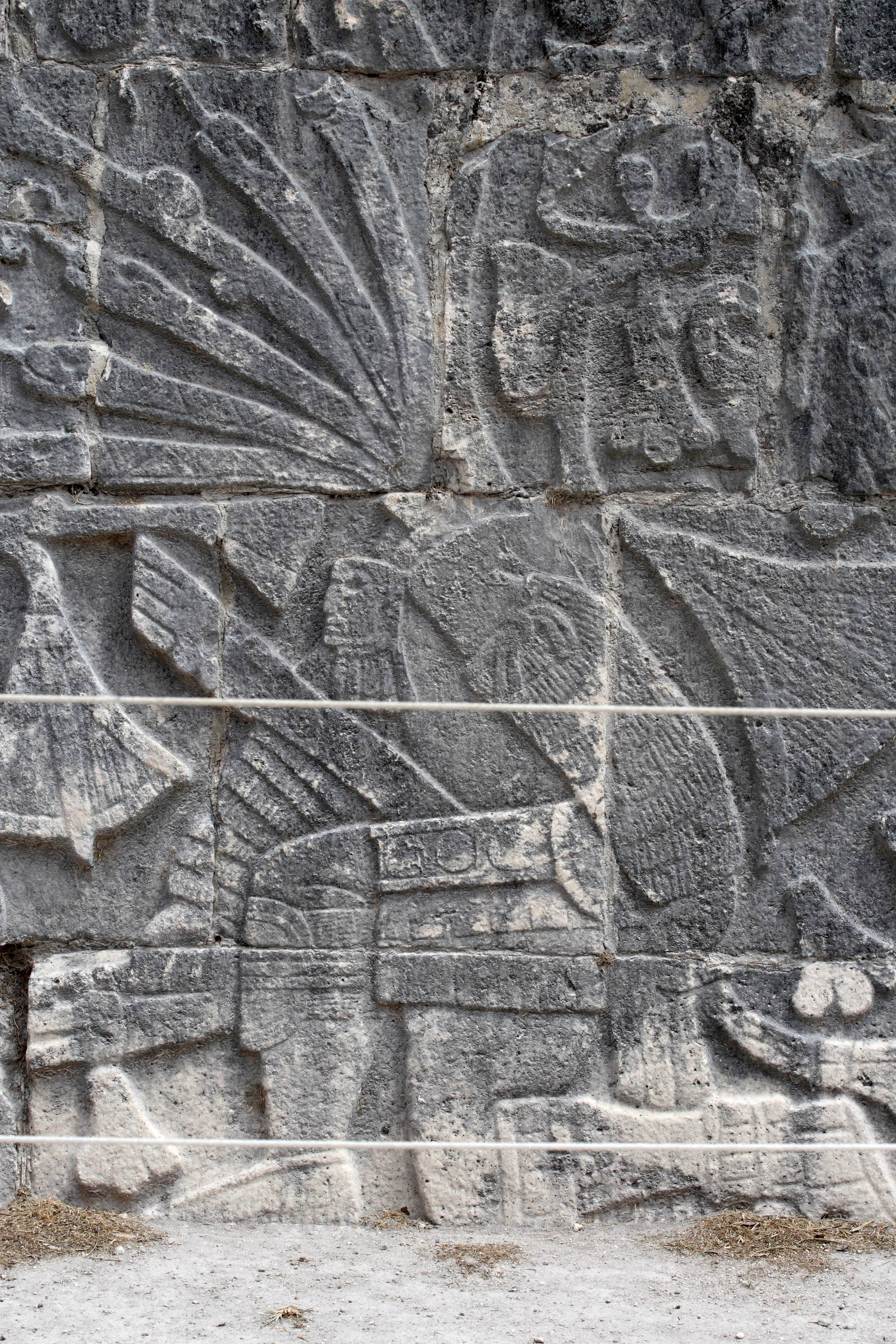 Relief sculpture from the Great Ballcourt at Chichen Itza, depicting a decapitated ballplayer.